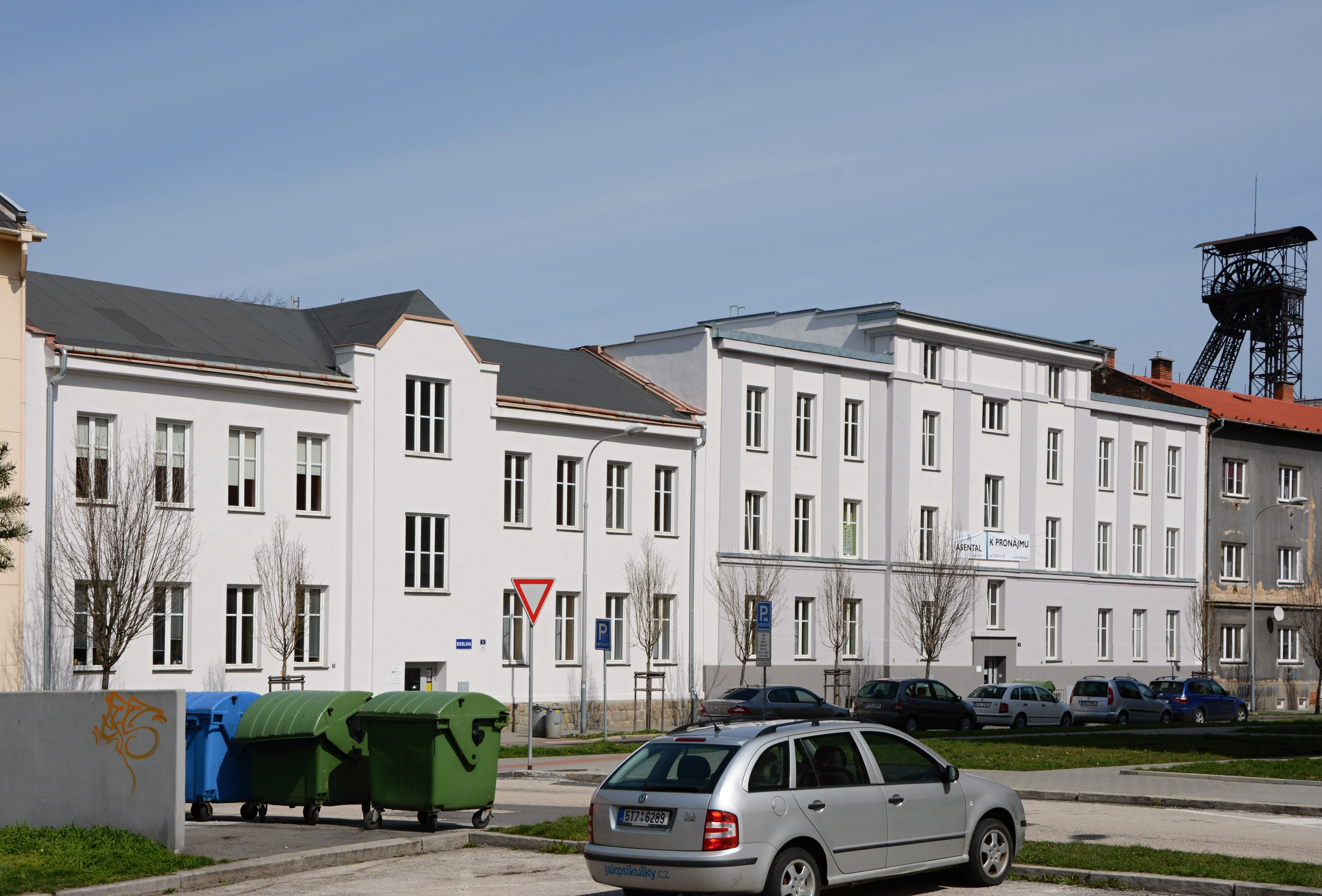 Bieblova street No. 8 and 6; Moravská Ostrava, Czech republic